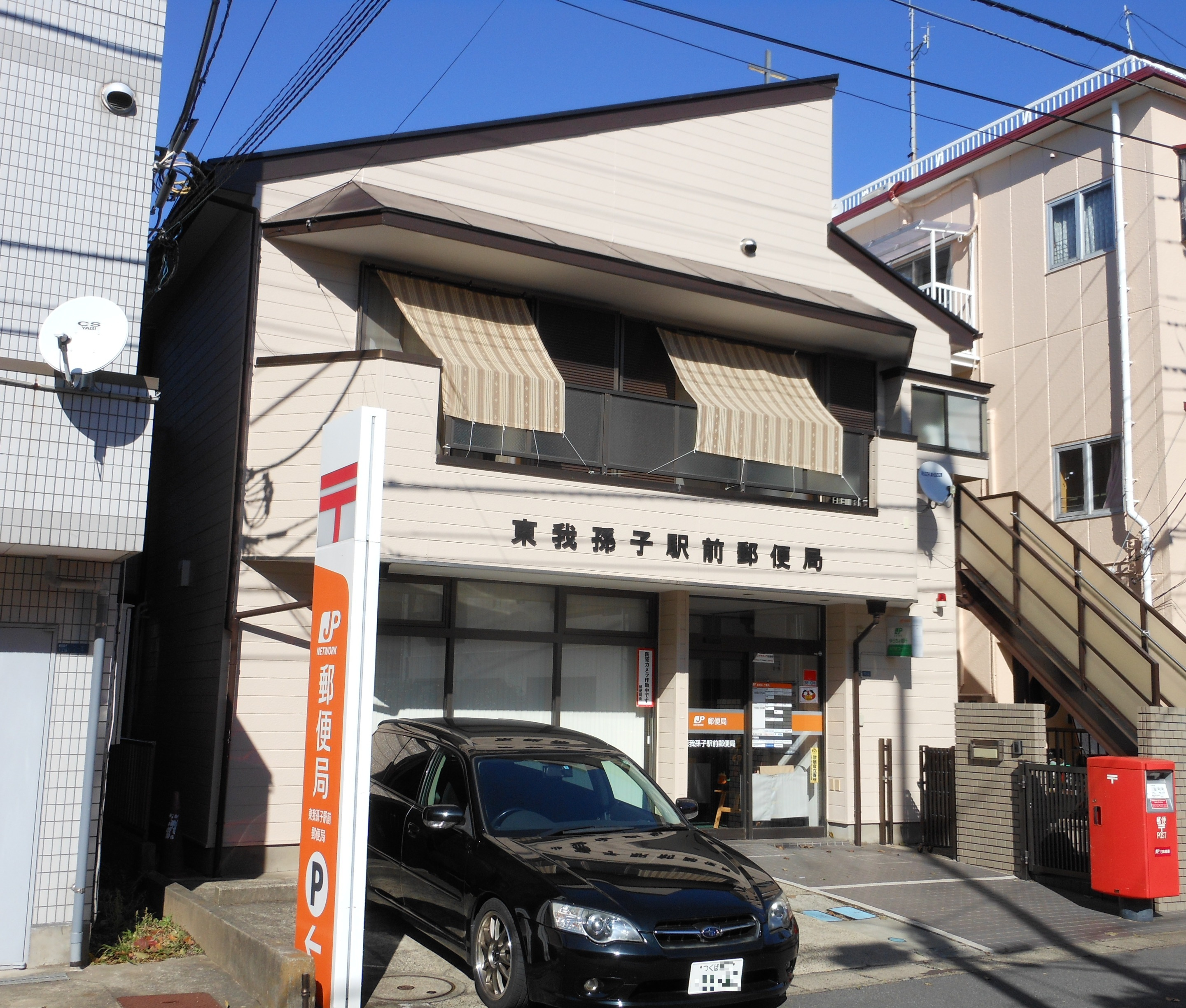 This is the Higashiabiko Post Office, which is located in front of Higashiabiko station, Abiko, Chiba, Japan.